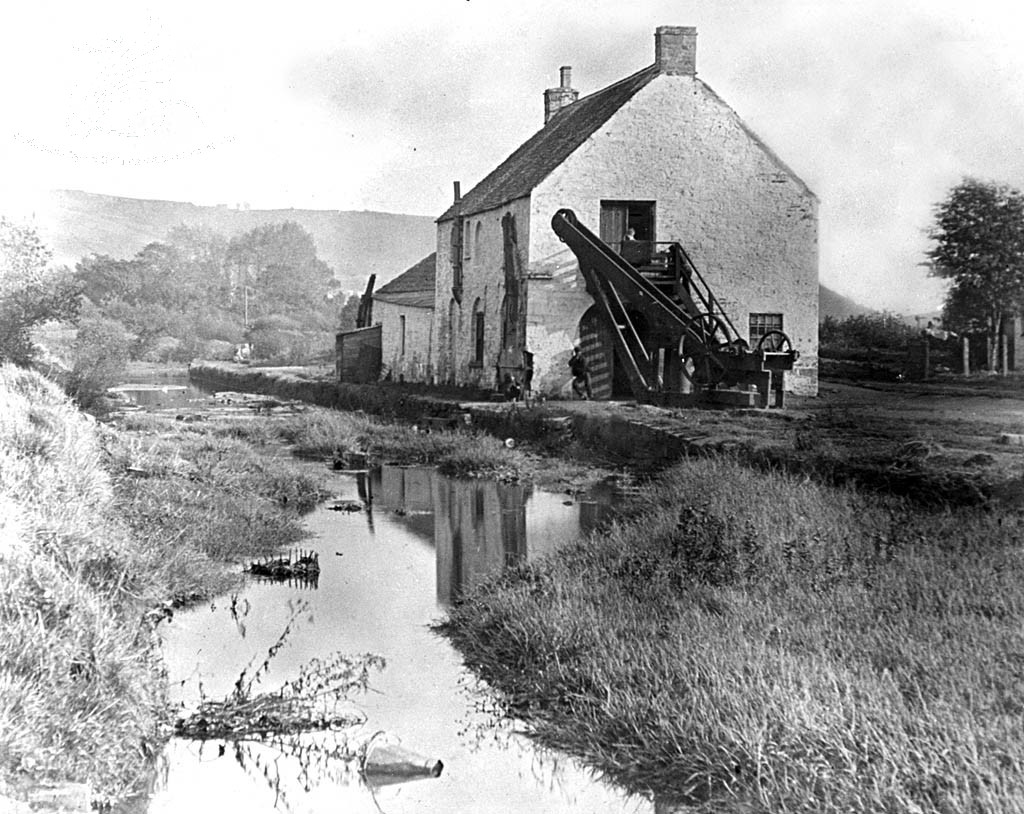 Aberdare Canal, Cwbach, Wales